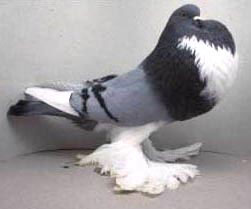 Blue Pied